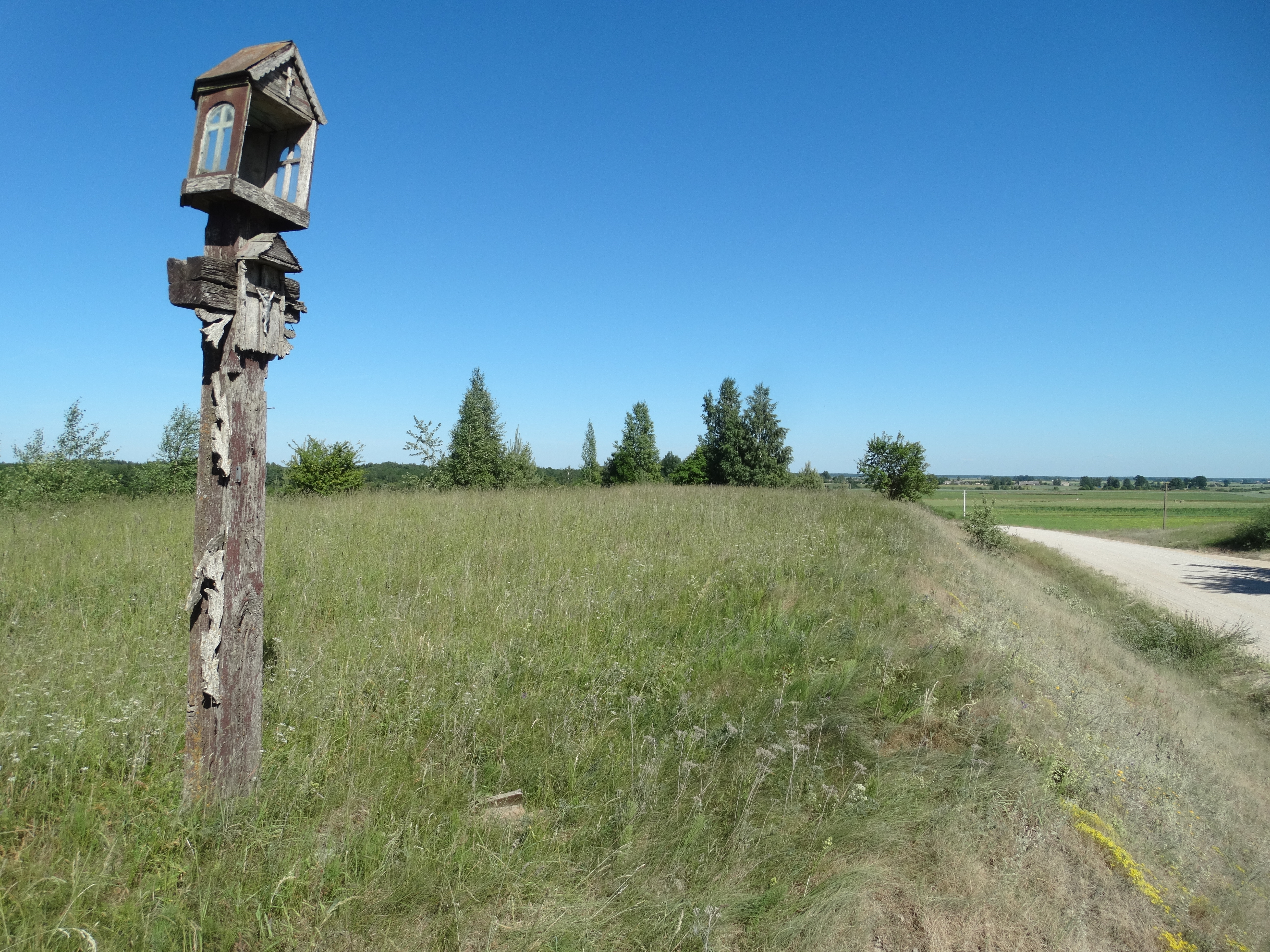 Agelaičiai, Raseiniai District, Lithuania